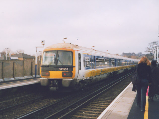 Peckham Rye railway station Original description: Commuters at Peckham Rye The morning rush-hour at Peckham Rye. A Slade Green to Victoria service leaves platform 3 while a good number of commuters are also waiting for a Blackfriars to Sevenoaks service at Platform 4. Platforms 1 and 2 are on the separate lines from London Bridge to Dulwich and Cyrstal Palace.